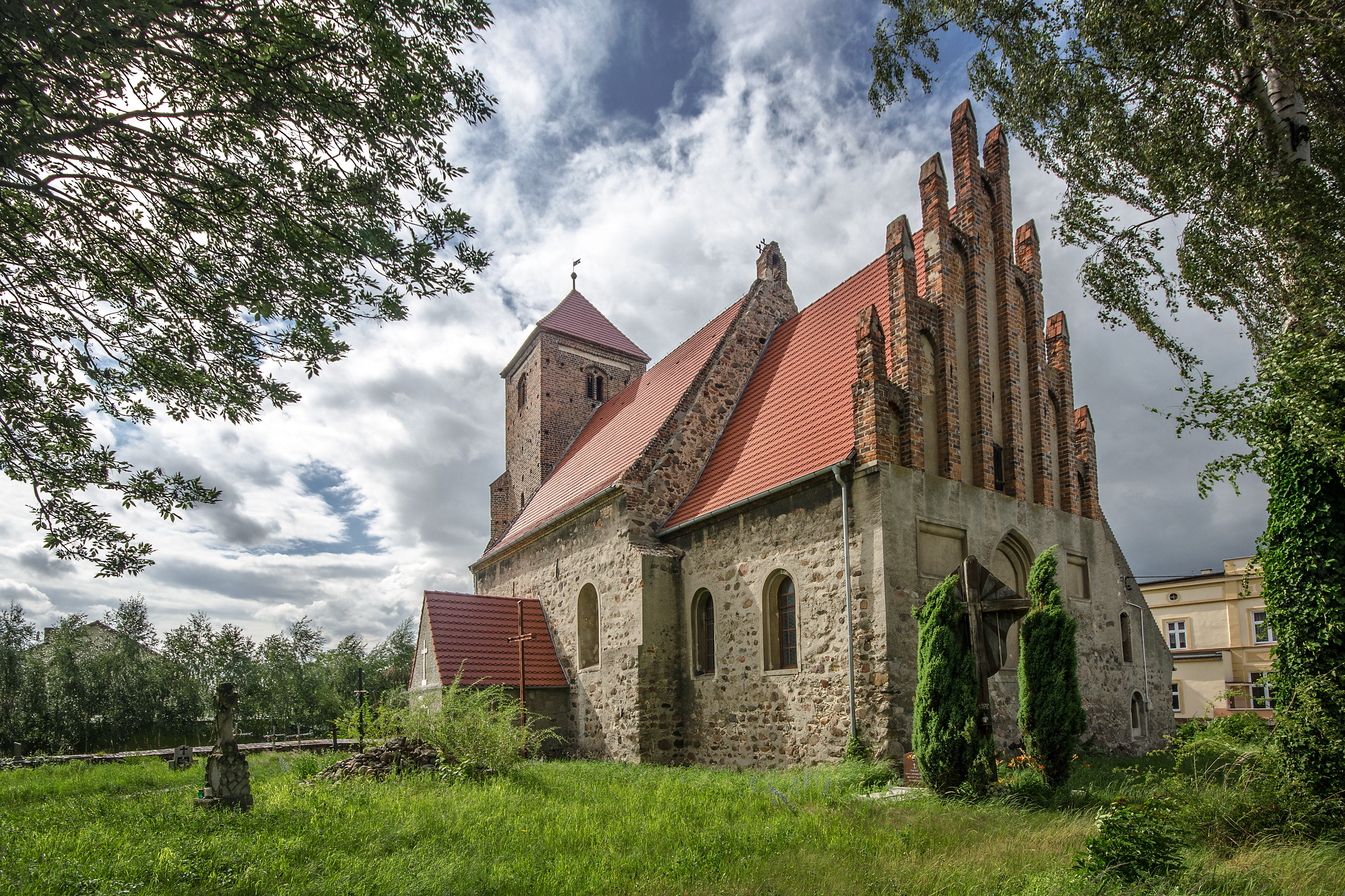 Church of Saint Michael Archangel in Nielubia